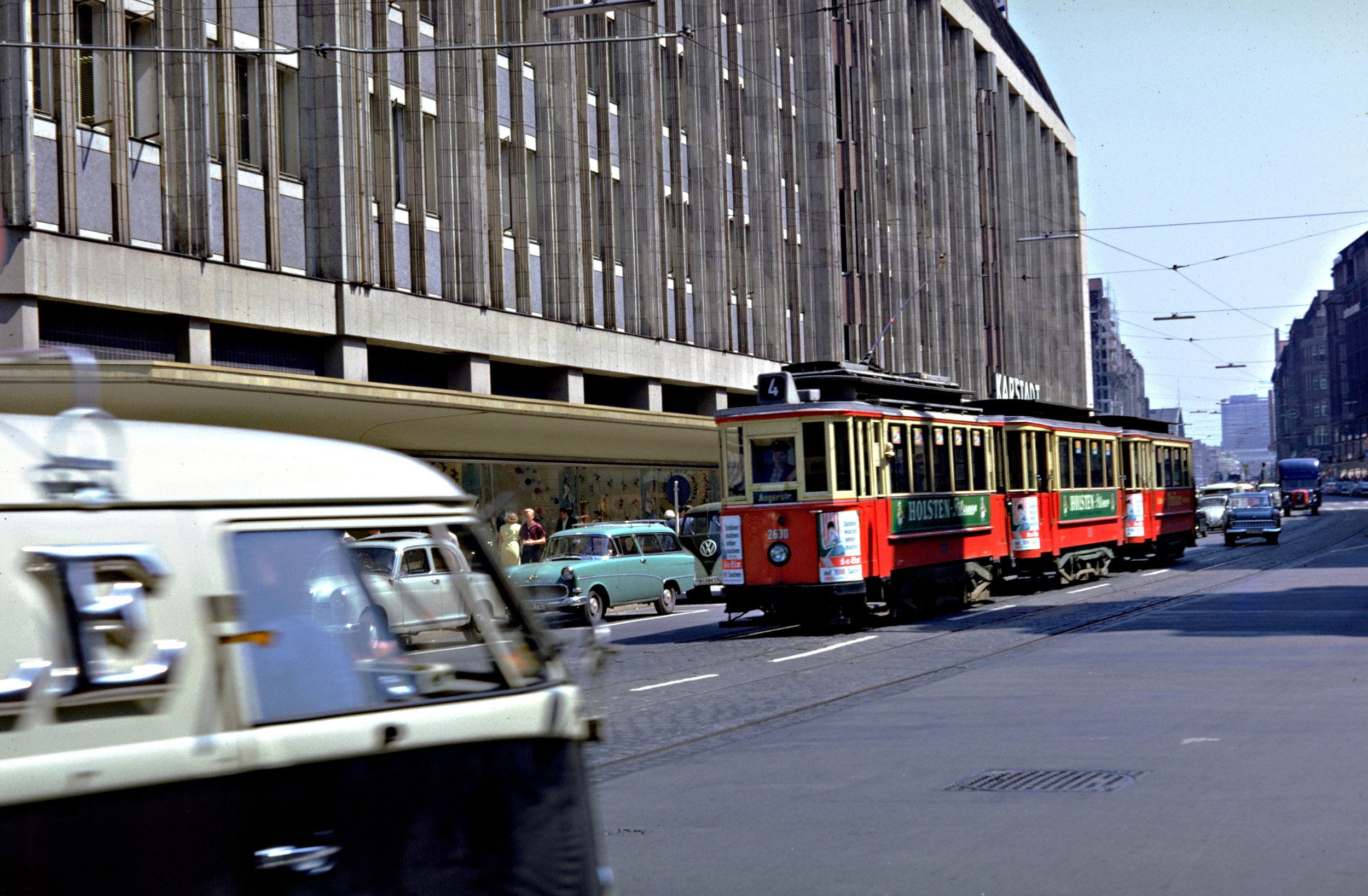 Tram in Hamburg City centre, Germany